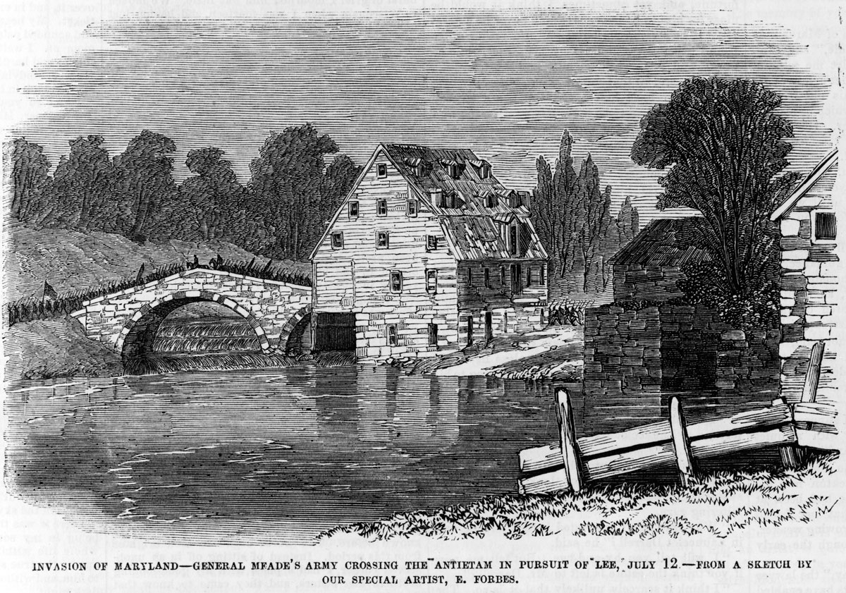 Invasion of Maryland - General Meade's army crossing the Antietam in pursuit of Lee, July 12 / from a sketch by our special artist, E. Forbes.